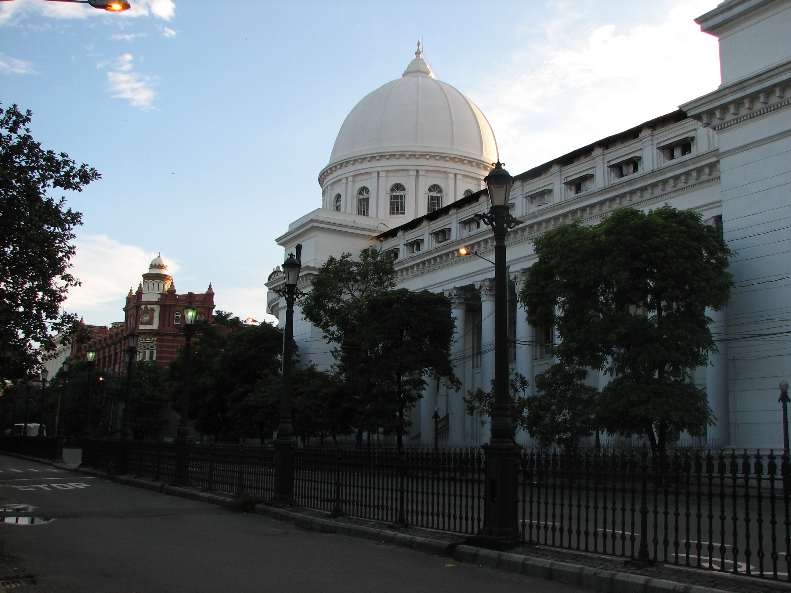 Calcutta GPO